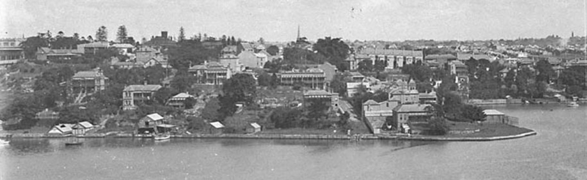 Blackwattle Bay foreshore circa 1900. Bellevue can be seen on the right on the Point